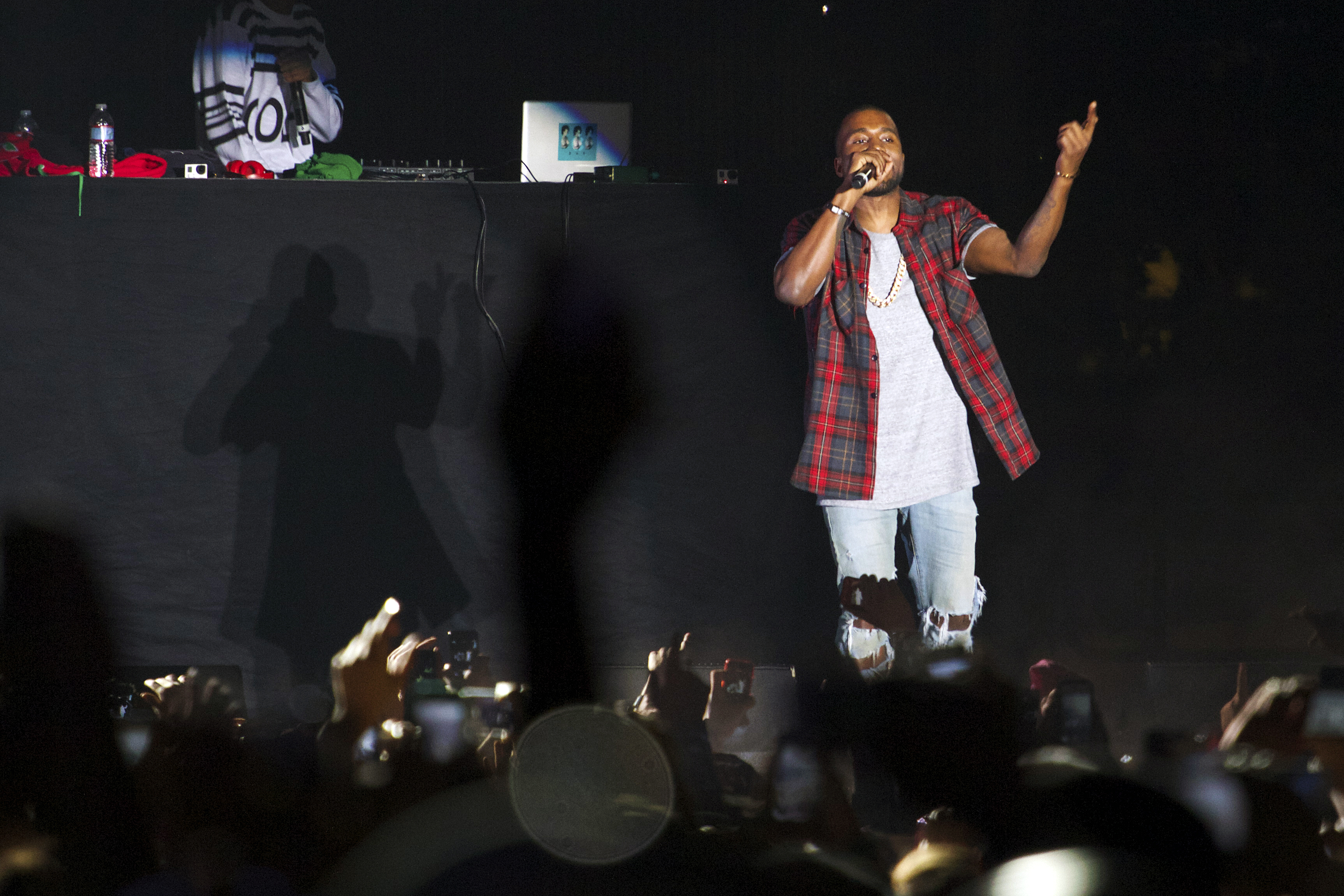 Kanye West performing the song "New Slaves" at the second annual Odd Future Carnival on November 9, 2013 in Los Angeles, California.